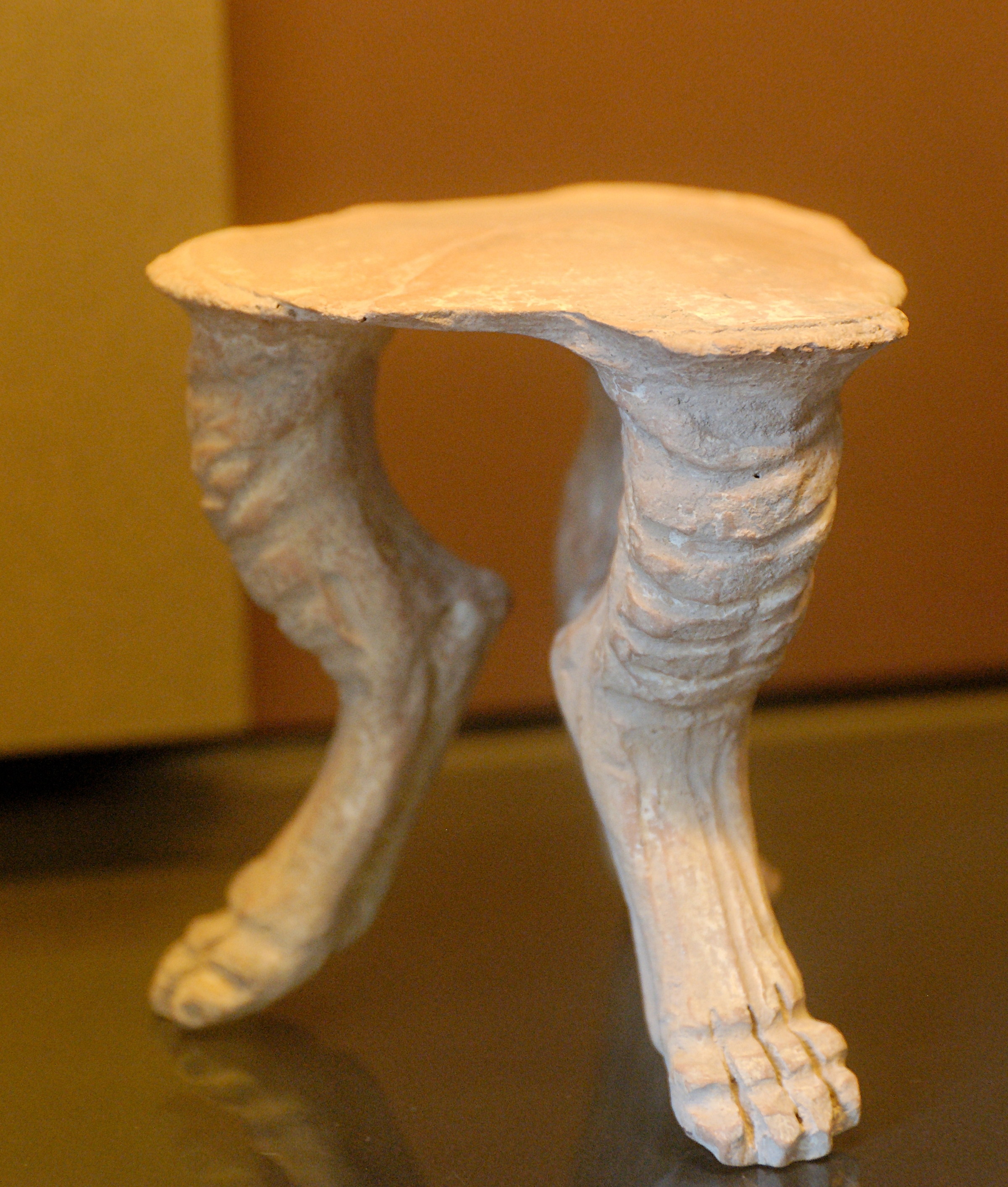 Lions' paw tripod table. Terracotta funerary model, 2nd–1st century BC, found in Myrina.